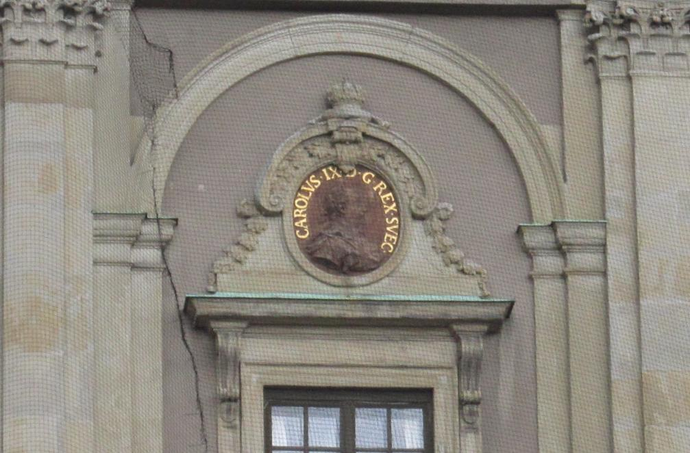 King Carl IX of Sweden, Sigmund III of Poland, as released by image creator Ristesson HistoryPlace: Stockholm Palace, Sweden